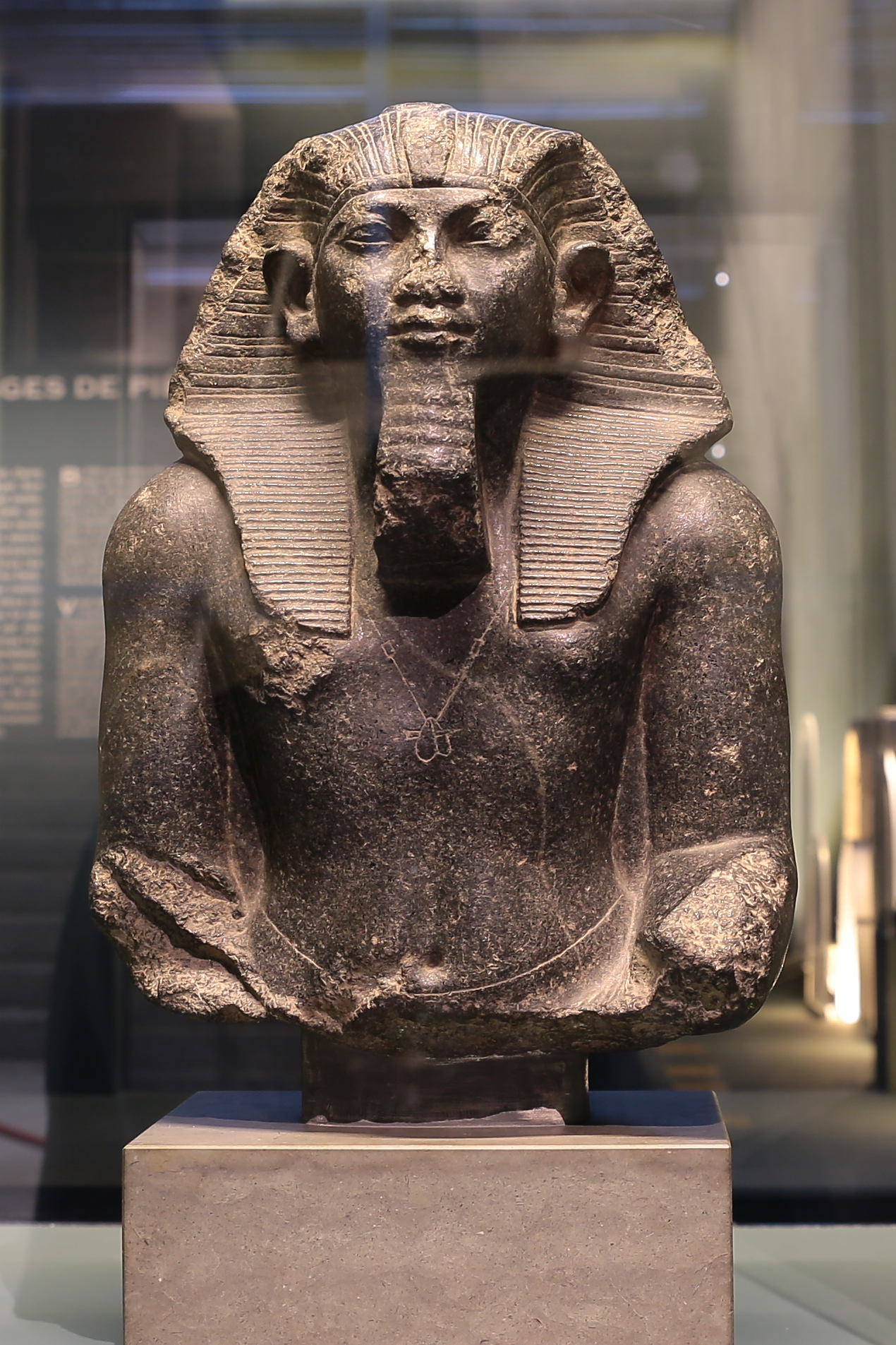 Upper part of statue of pharaoh Senusret II of the 12th Dynasty, Middle Kingdom. Granite, H. 35 cm. From Memphis, Egypt, now in the Ny Carlsberg Glyptotek, Copenhagen. Picture taken during the temporary exhibition "Sésostris III, pharaon de légende", which took place at the Palais des Beaux-Arts of Lille.[1]